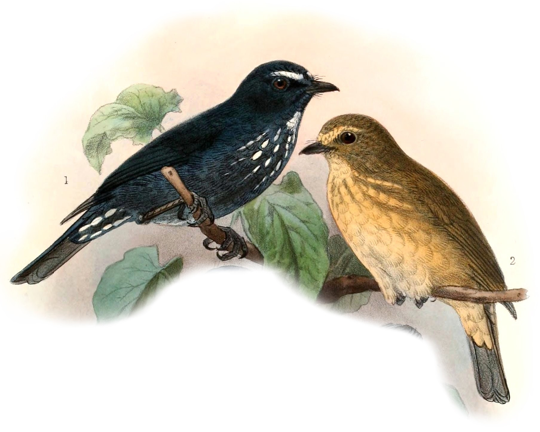 « Dammeria henrici » = Ficedula henrici (Damar Flycatcher) - male and female